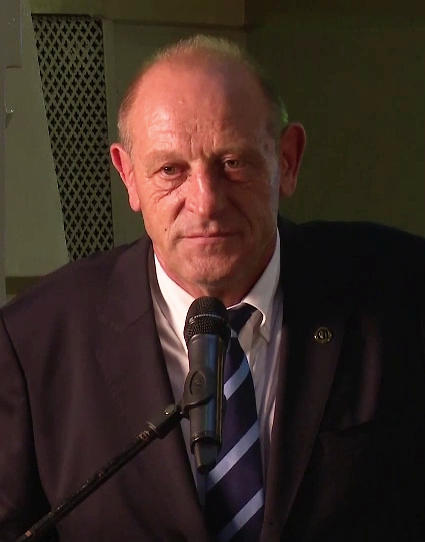 Romanian former international rugby union player, Haralambie Dumitraș, is seen during a press conference in September 2015 shortly before departing for the 2015 Rugby World Cup